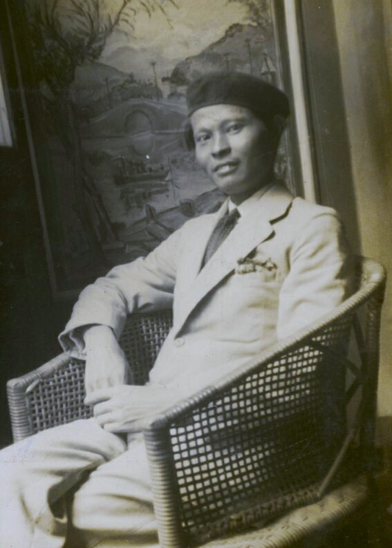 Photo of Chen Cheng-po (1895-1947).